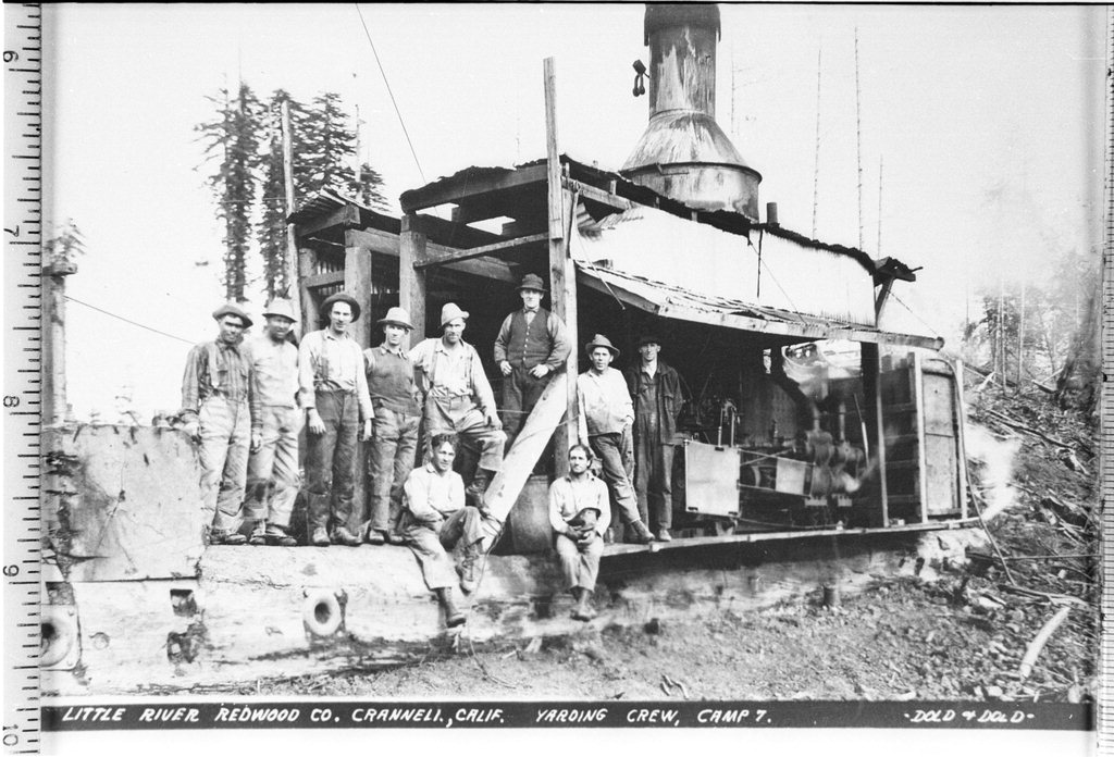 A group of men in front of a yarder. Yarders were moved by rail to areas where timber had been cut.